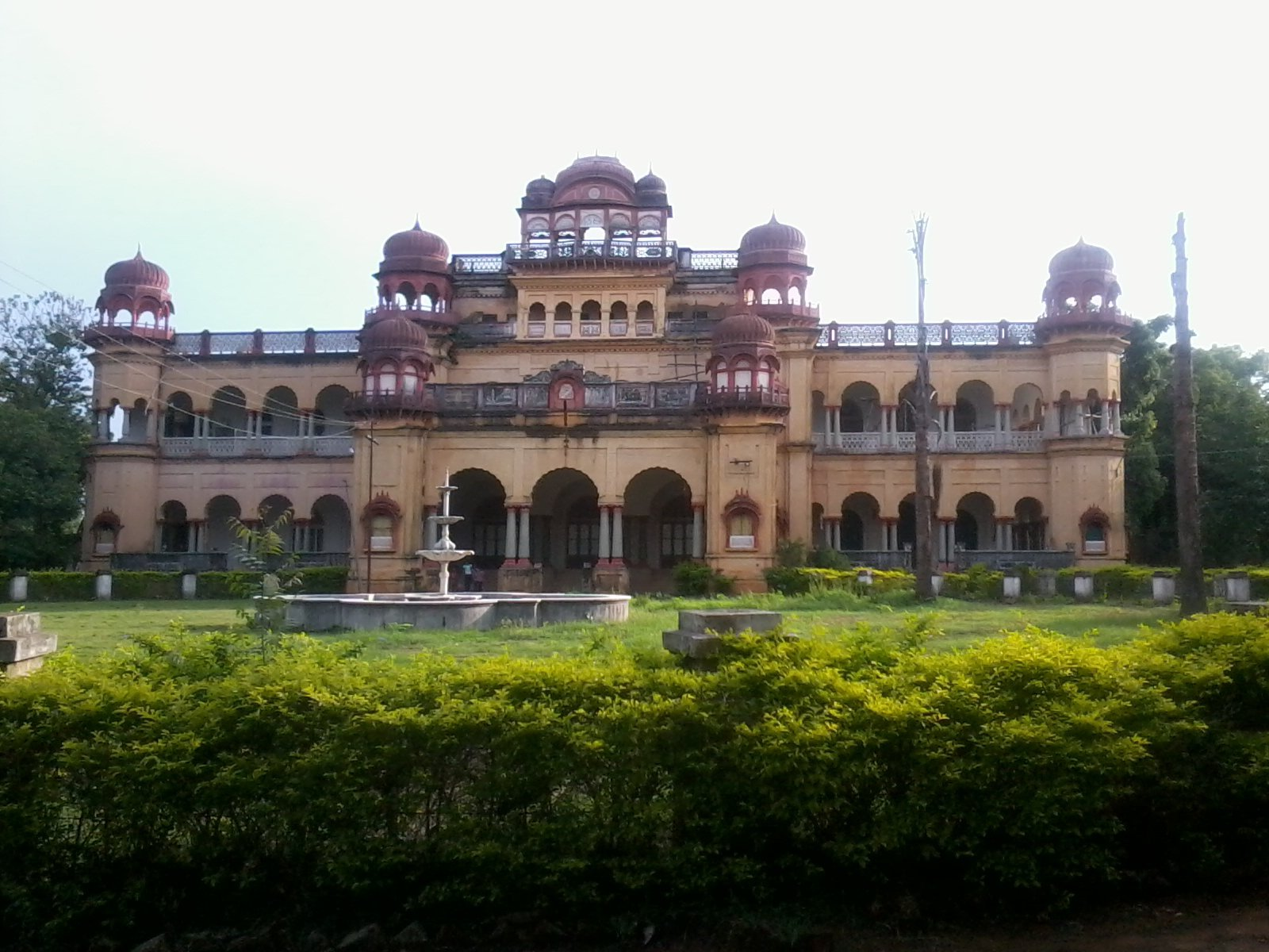 Photo of Balangir Royal Palace also known as Sailashree Palace.